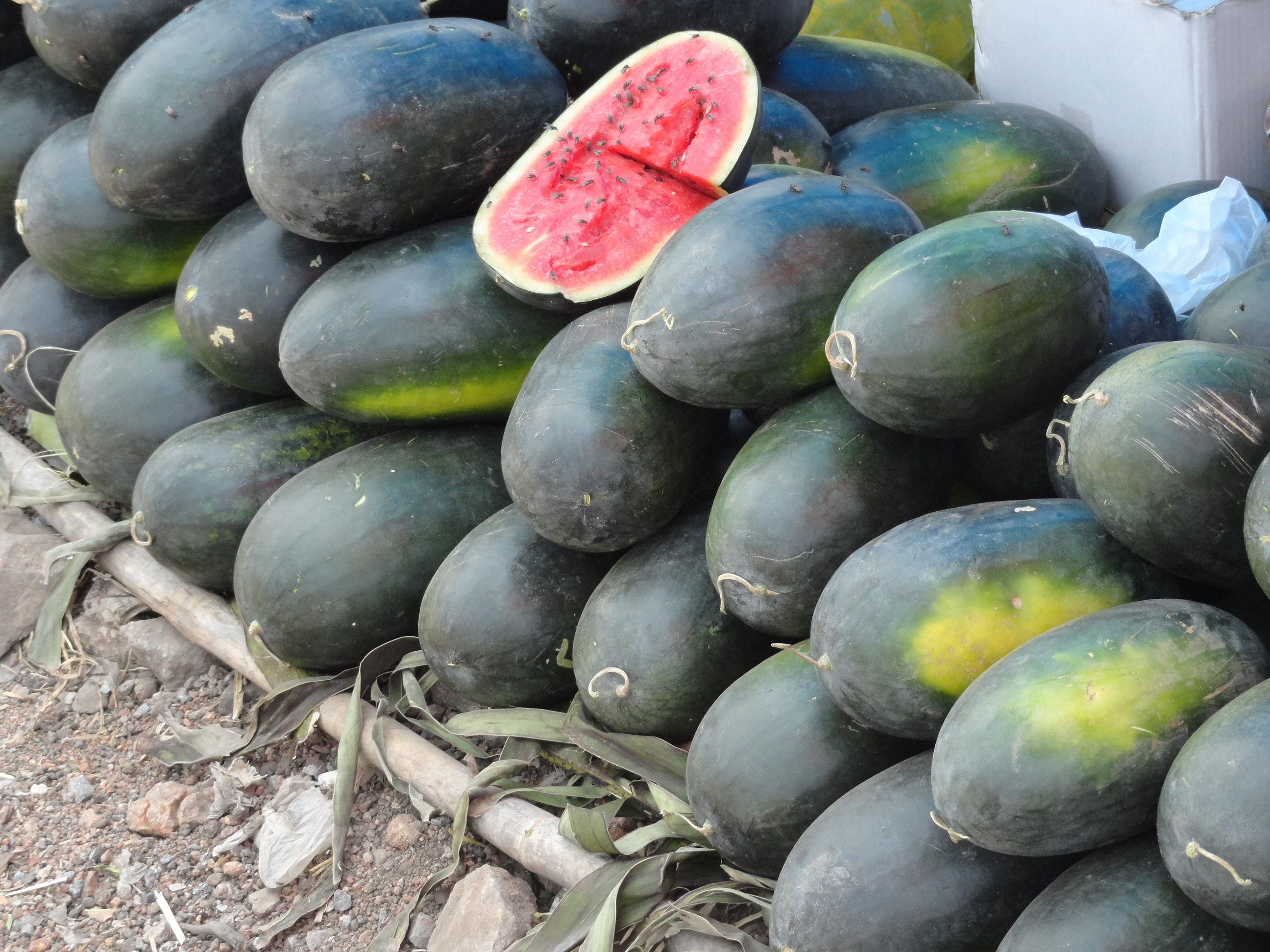 black water melon at Hyderabad